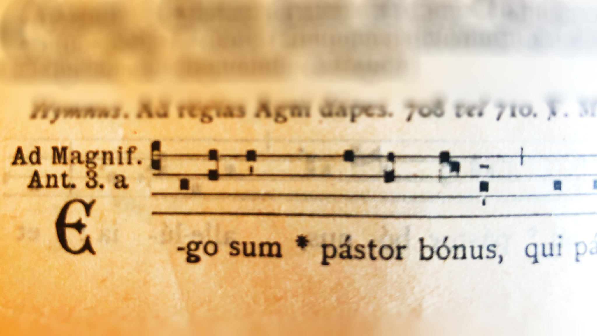 Incipit Ego sum Pastor antiphon